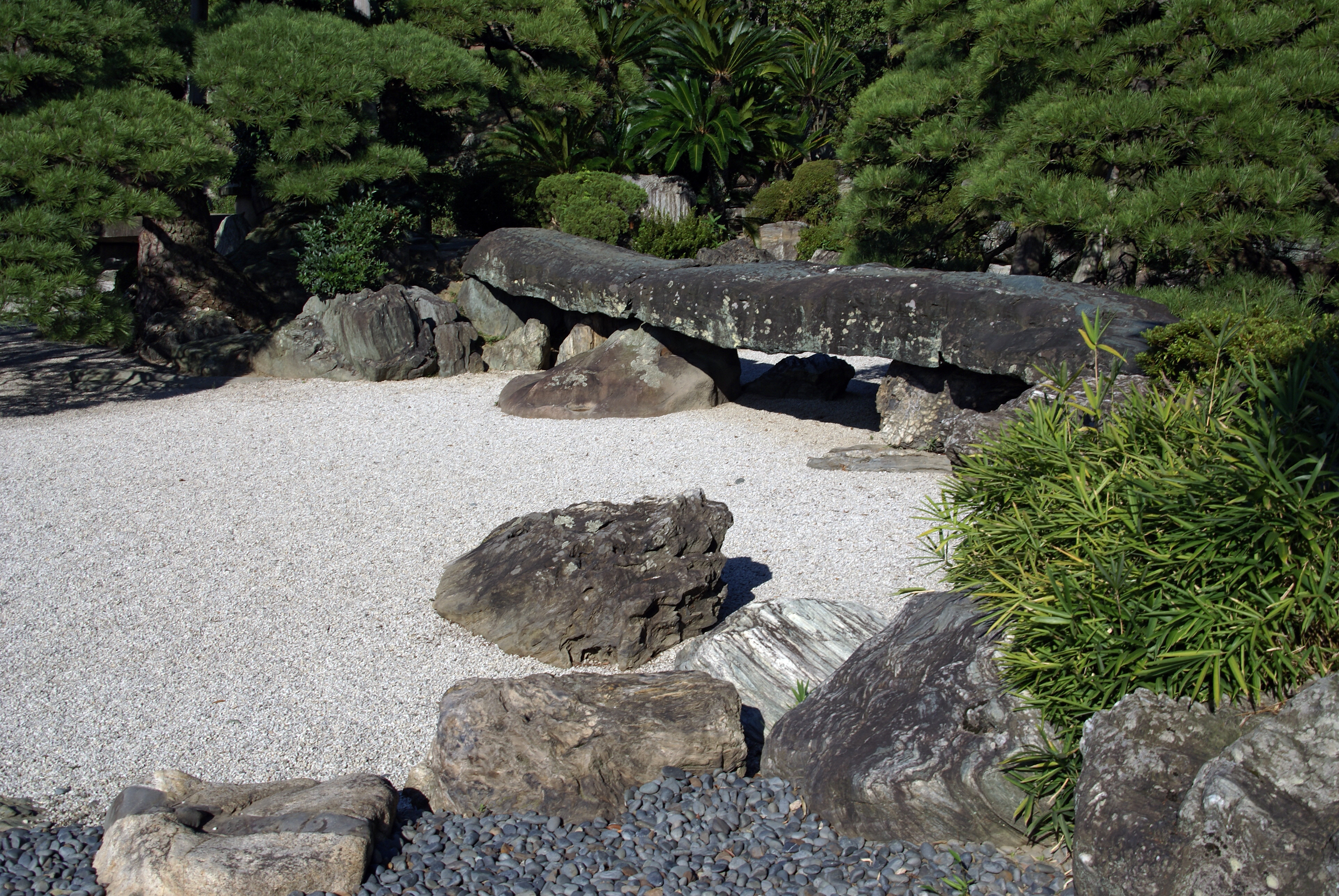 Tokushima Castle Lordly Front Palace Garden in Tokushima, Tokushima prefecture, Japan